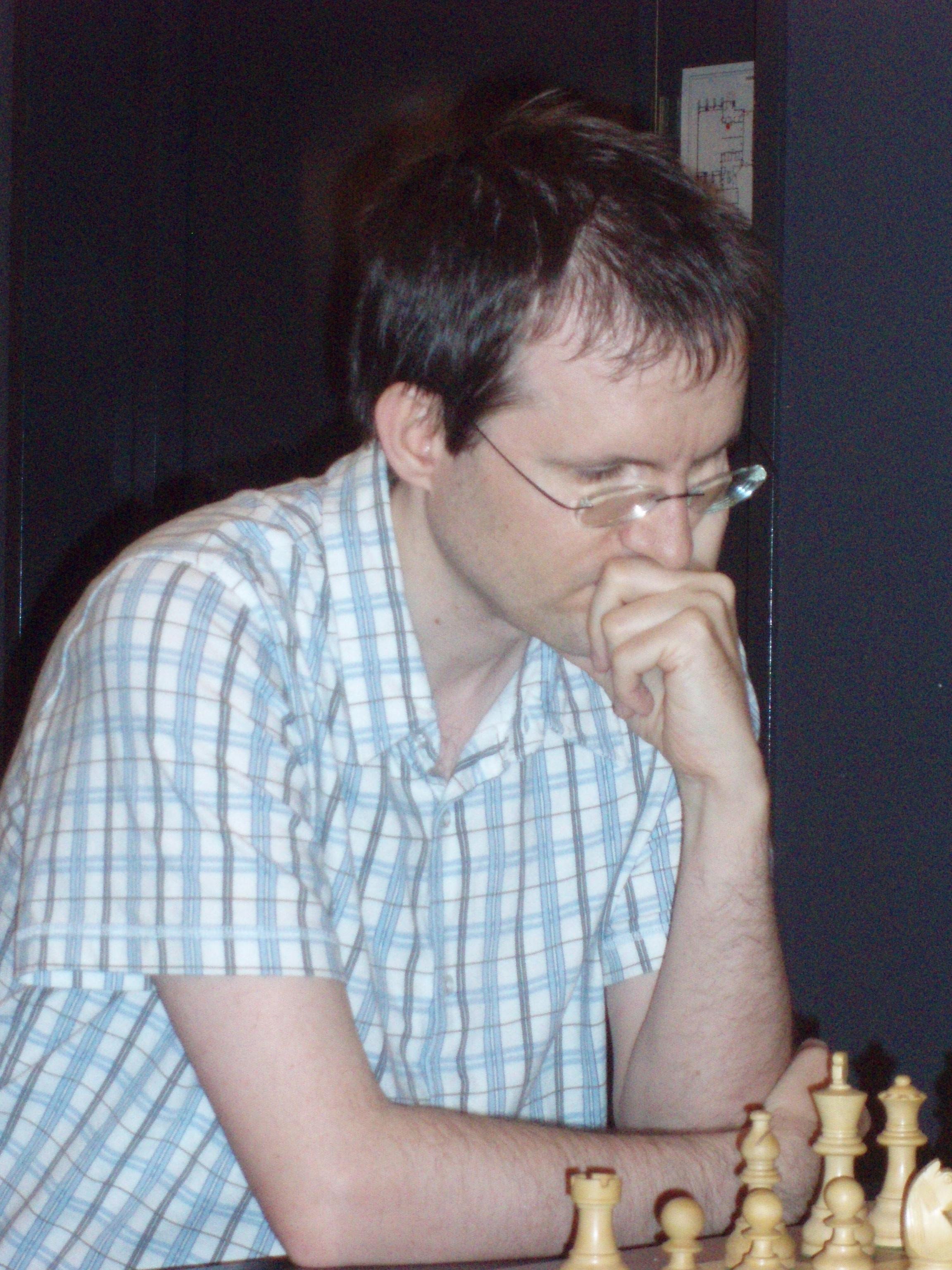 Rune Djurhuus, Chess Grandmaster, at the Norwegian Chess Championship at Hamar 2007 Rune Djurhuus, stormeister i sjakk, NM på Hamar 2007